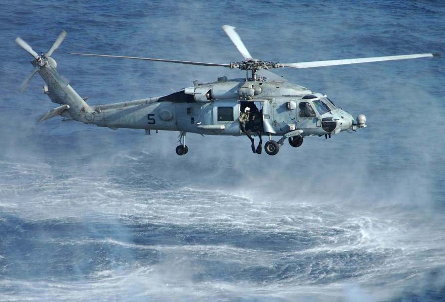 A Navy HH-60H Seahawk hovers over the Pacific Ocean as it prepares to put two swimmers attached to an Explosive Ordnance Disposal detachment in the water to detonate a simulated mine during a training exercise on March 8, 2005. EOD technicians routinely train to locate and disarm various explosive devices. The Seahawk is attached to Helicopter Anti- submarine Squadron 14 of Naval Air Station Atsugi, Japan. The EOD technicians and the Seahawk are operating from the aircraft carrier USS Kitty Hawk (CV 63).